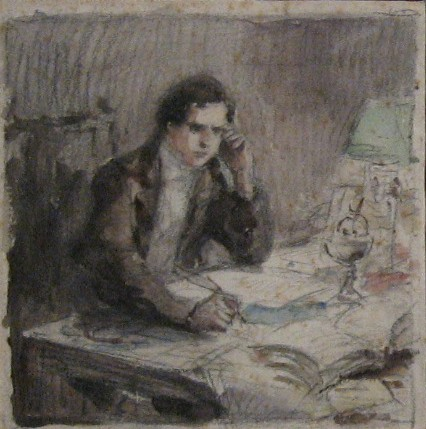 Early version of the portrait of Mariano Moreno requested to Pedro Subercaseaux Errázuriz. The finished version can be seen here